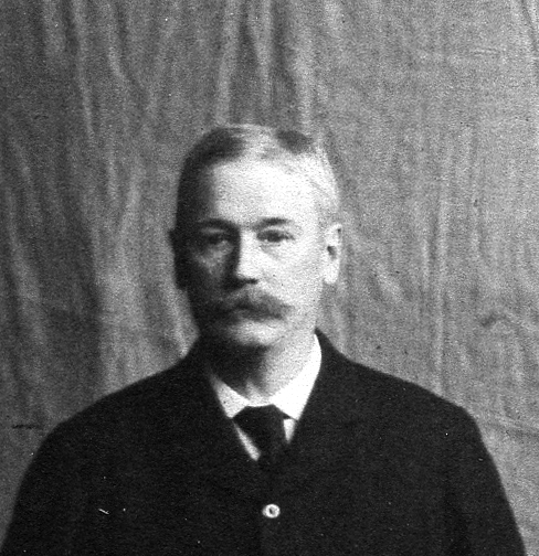 Thomas Wilmer Dewing, cropped from File:Ten American Painters (The Ten).jpg